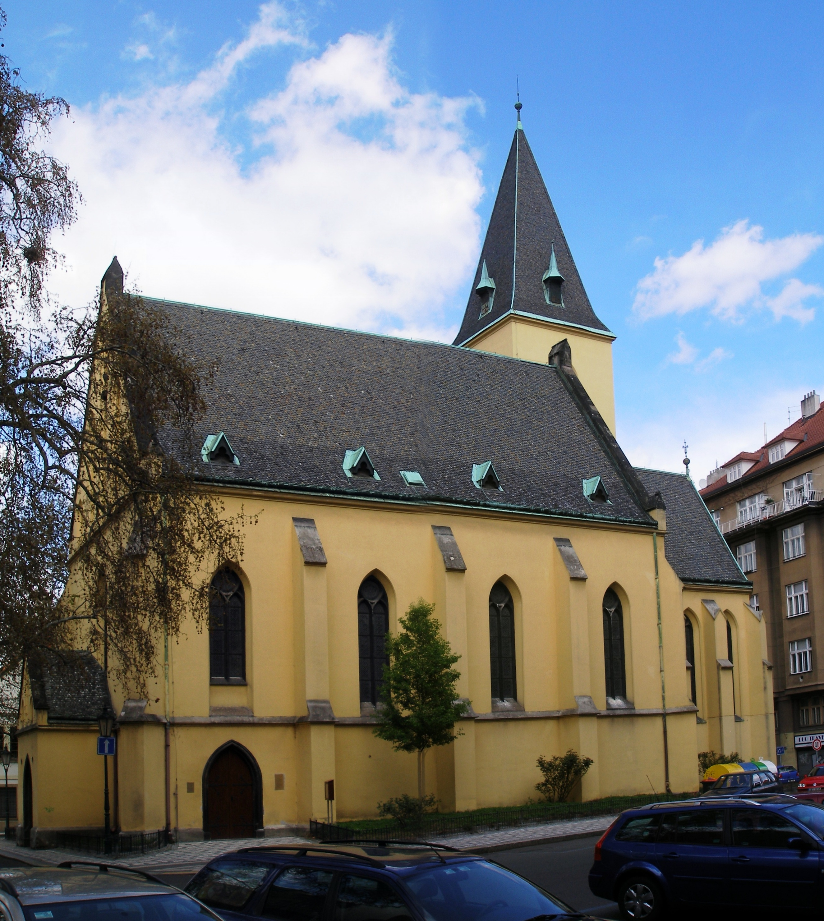 Church of Saint Kliment in Prague, Klimentská street.